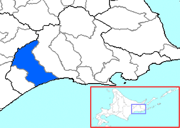 The location of Shiranuka in Kushiro Subprefecture, Hokkaido Prefecture, Japan.